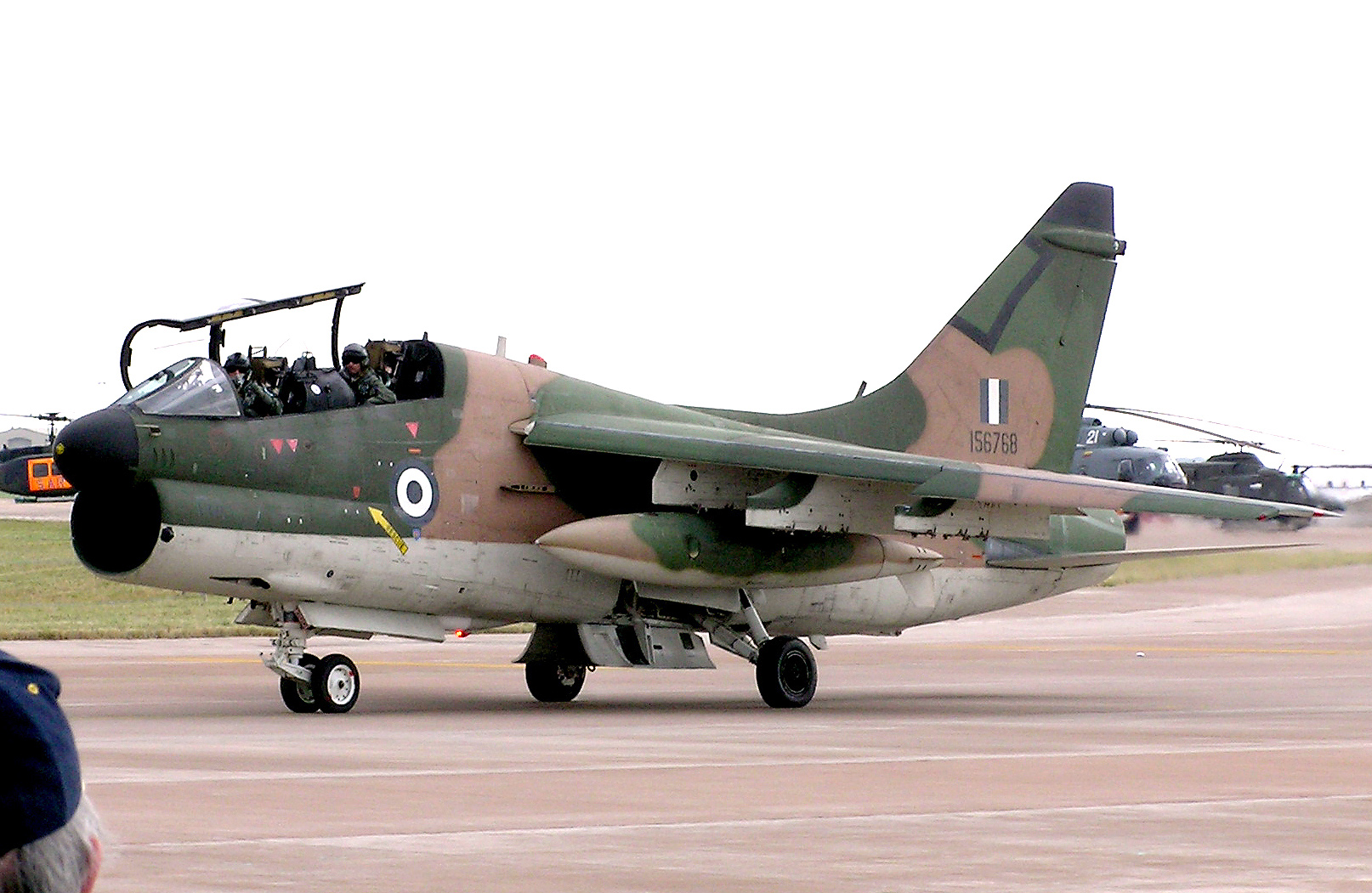 Ling-Temco-Vought TA-7C Corsair II of the Greek Air Force, taxying at the Royal International Air Tattoo at Fairford, Gloucestershire, England. Photographed by Adrian Pingstone in July 2005 and released to the public domain.